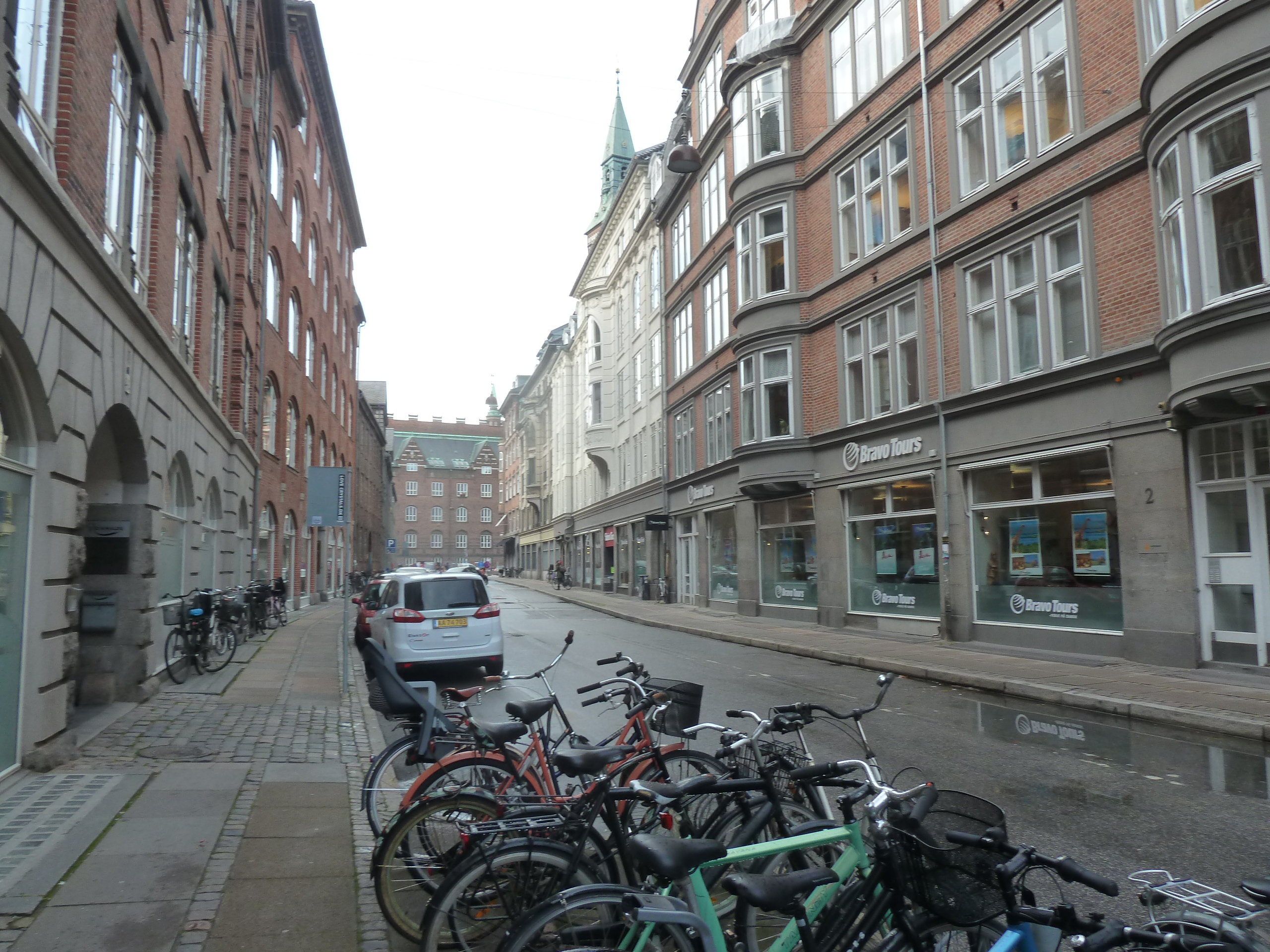 The street Farvergade in Indre By in Copenhagen.